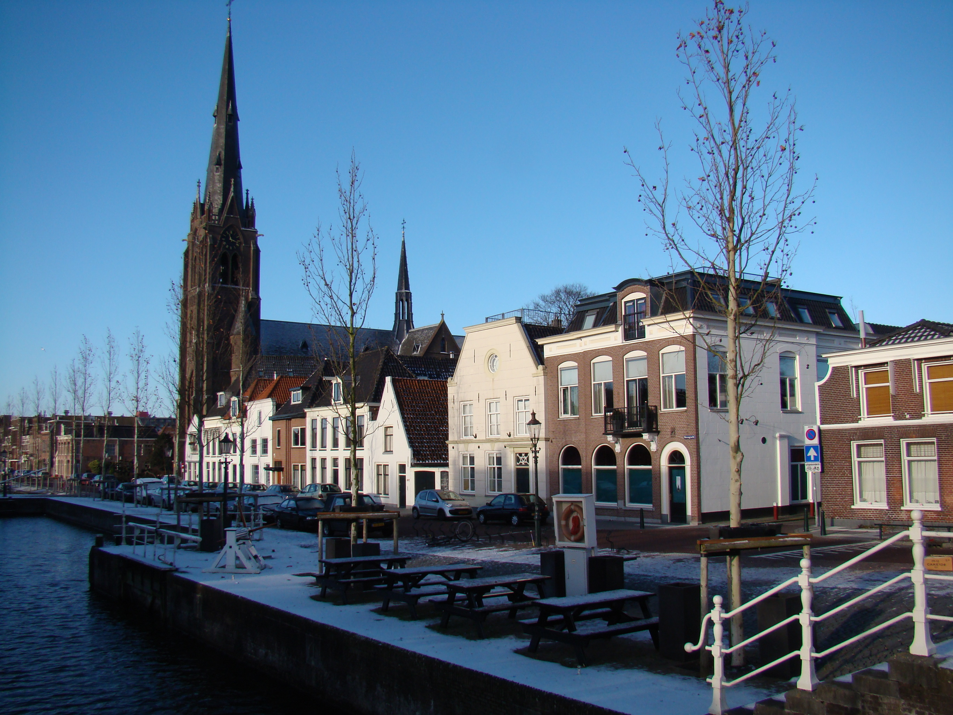 Herengracht at Weesp